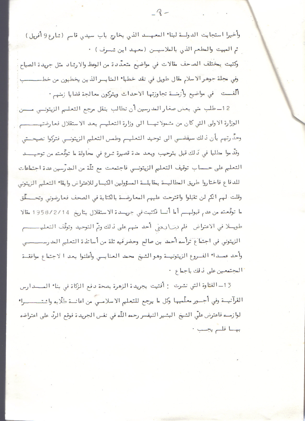 السيرة الذاتية للشيخ الطيب التليلي، ص 8